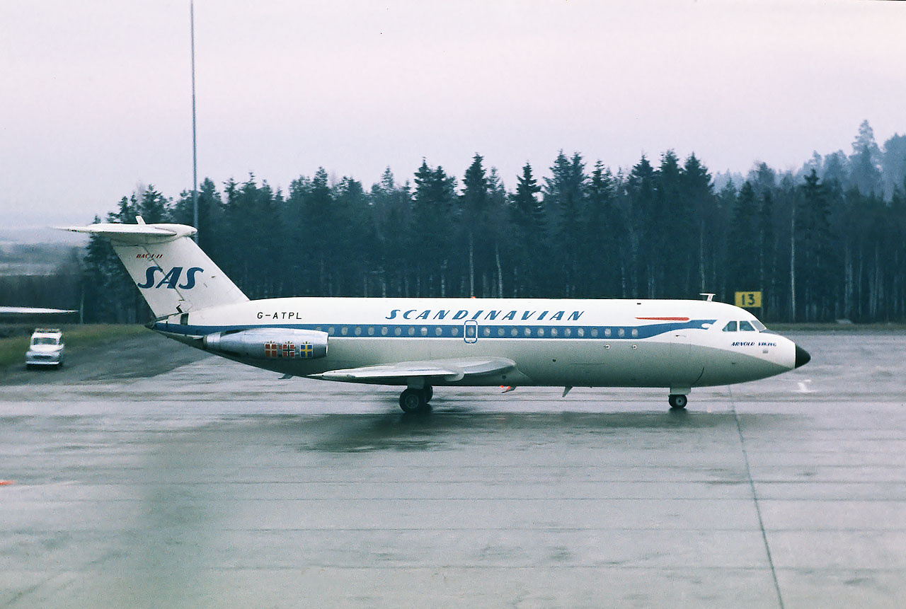 Scandinavian Airlines System (SAS) BAC 111-301AG One-Eleven G-ATPL Arnold Viking at Stockholm-Arlanda Airport